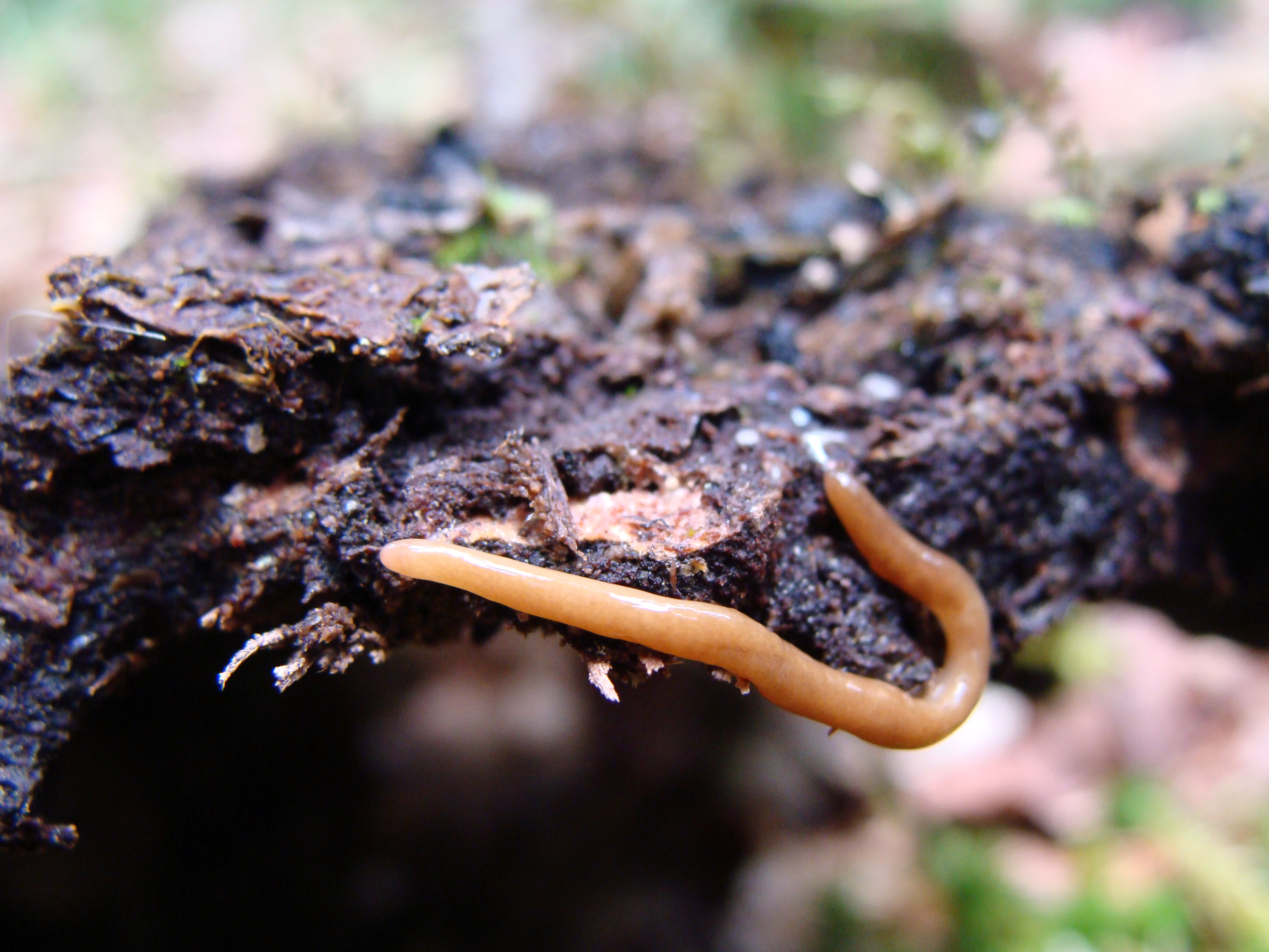 Microplana robusta Vila & Sluys, 2011 from Portugal.